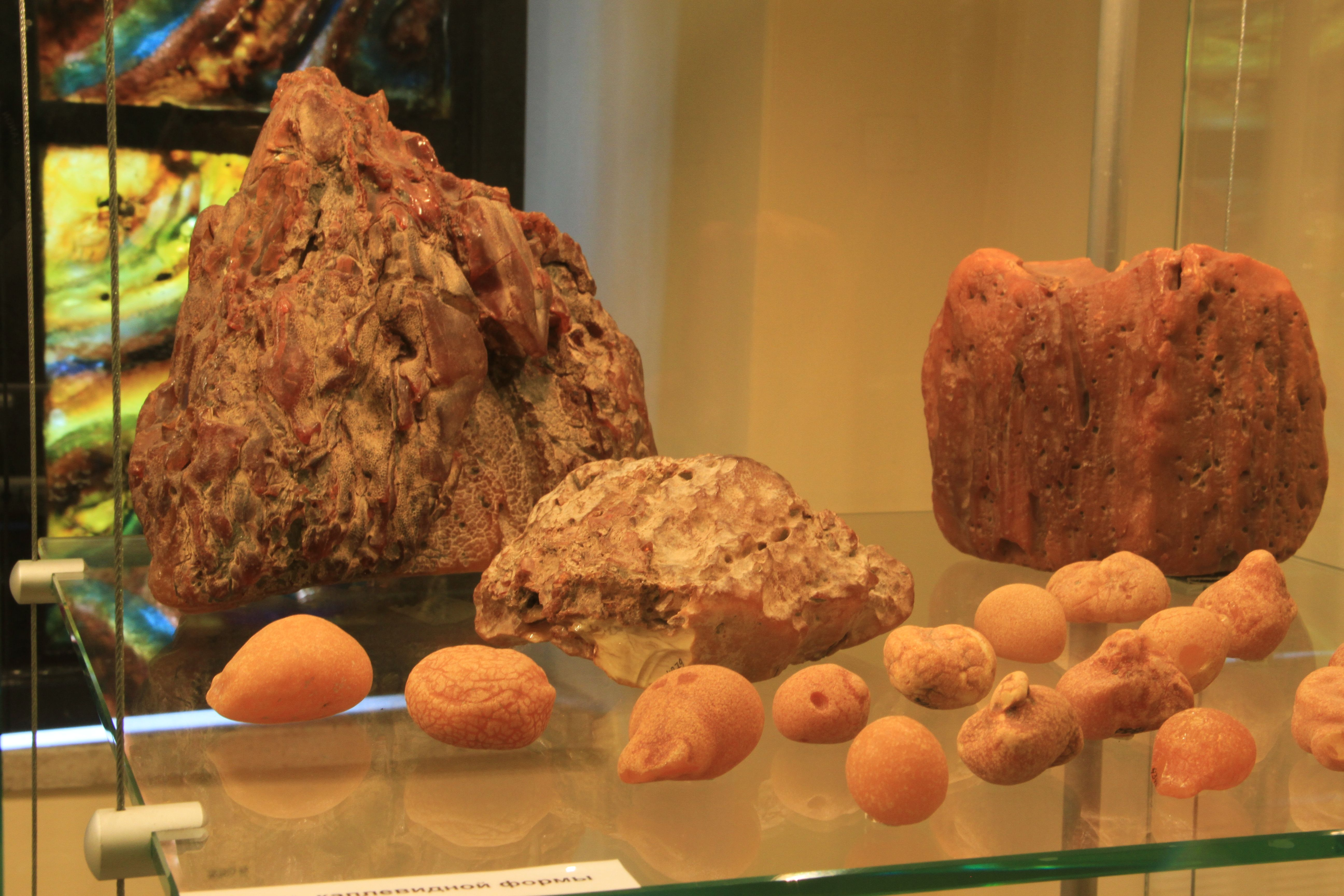 pieces of amber, in the foreground so called drops